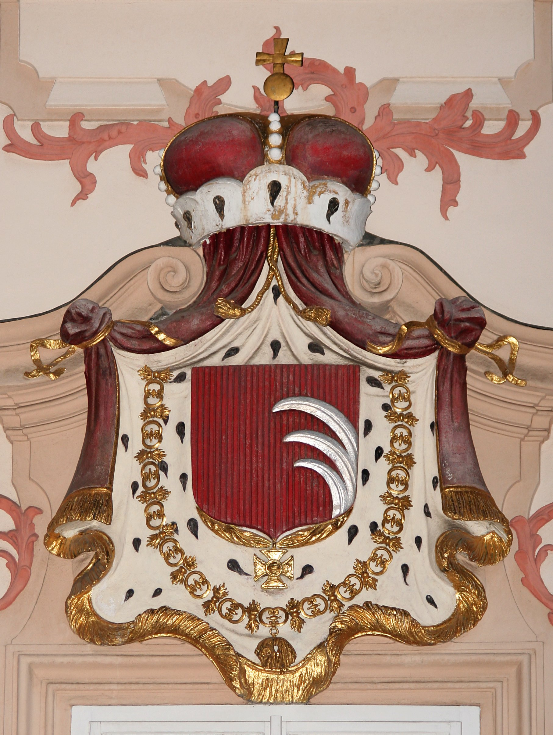 Coat of arms on Palace Golz-Kinsky on Old town square, Praha